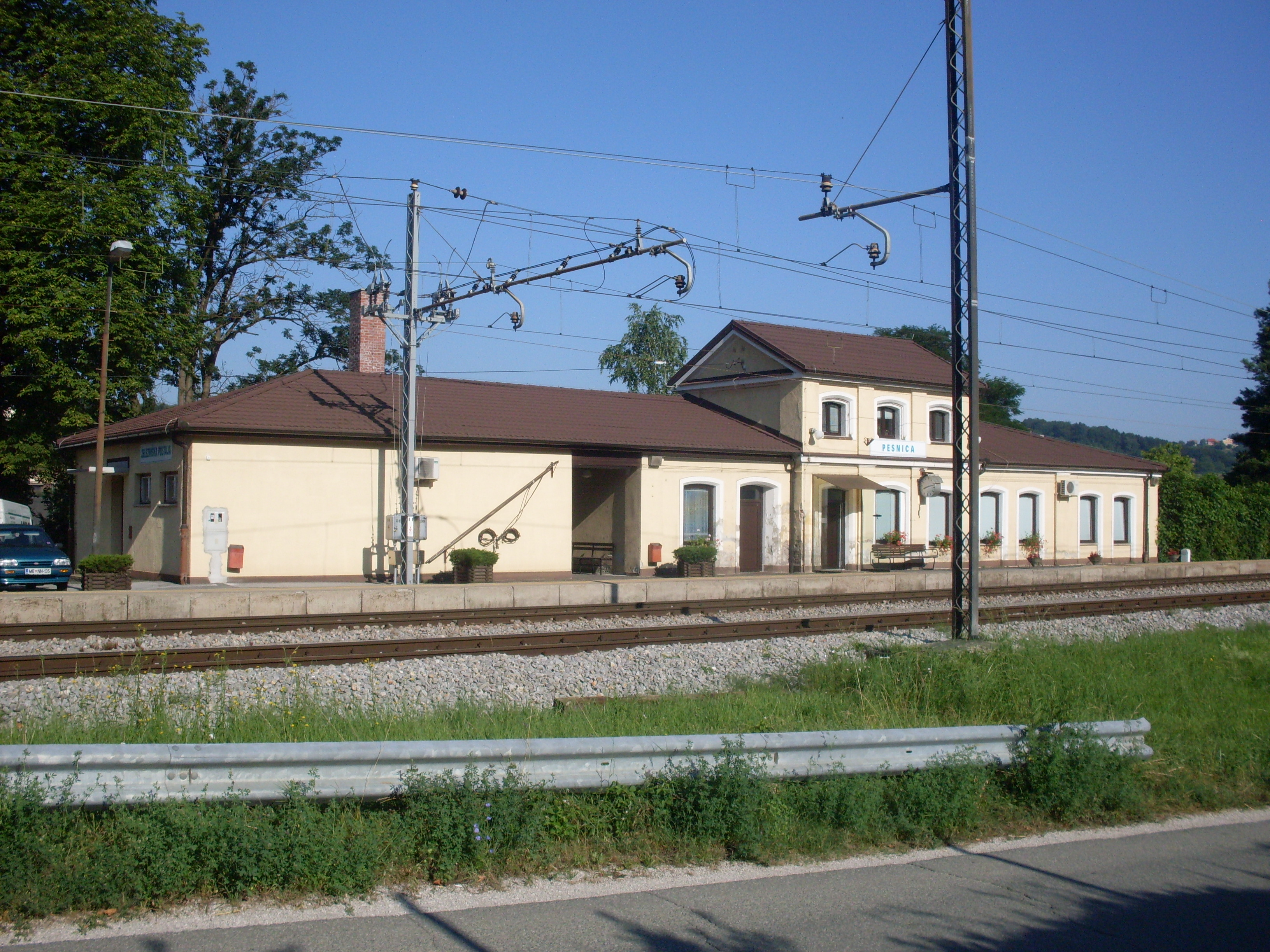 Train station in Pesnica